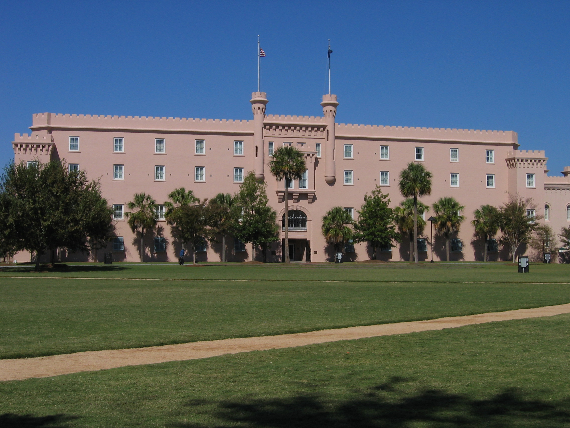 Photo by User:AudeVivere